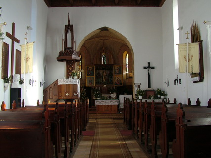 Church of Óföldeák. The nave.